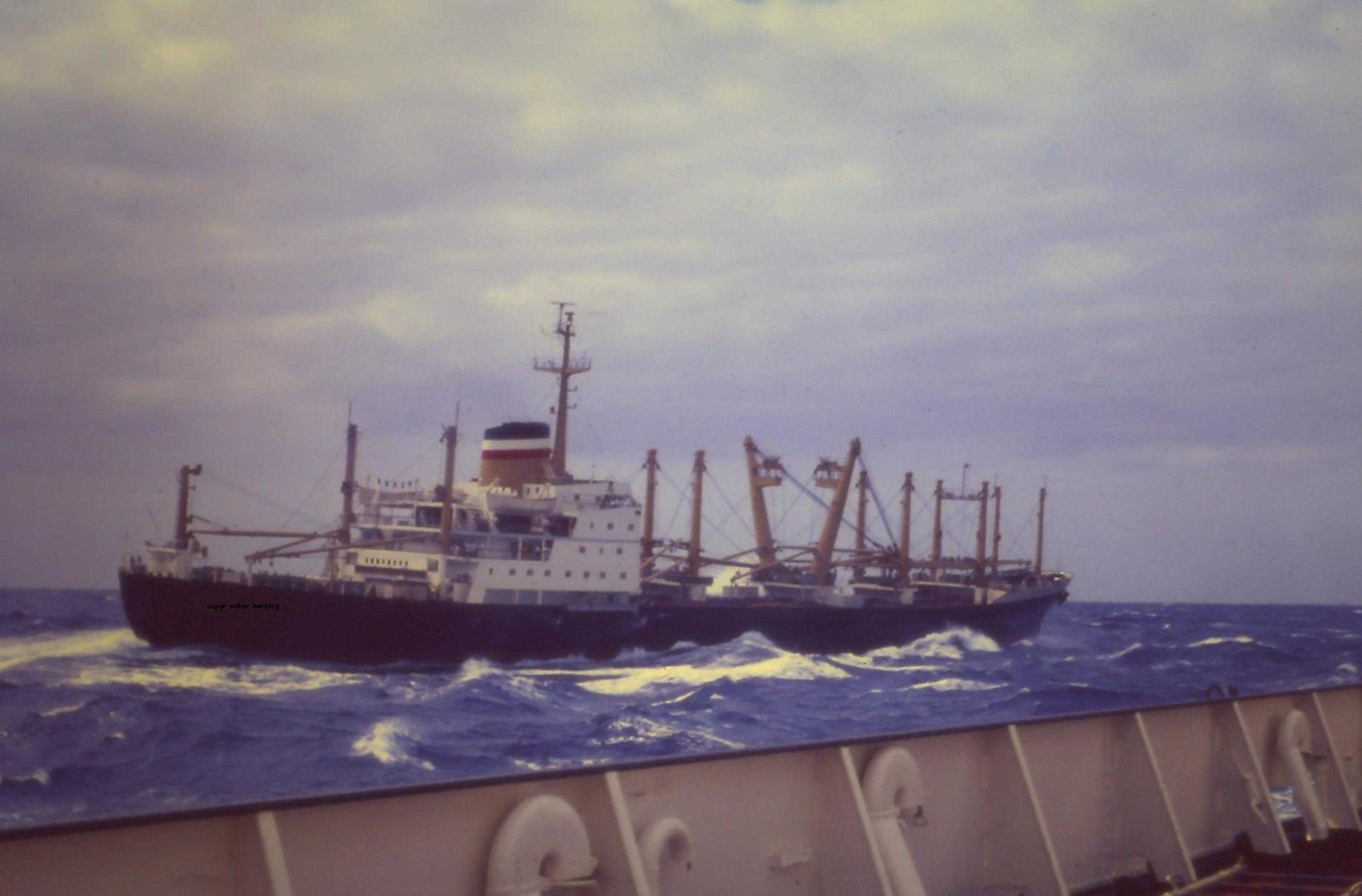 Encounter with Hapag cargo ship MS Holsatia in the South Atlantic - December 1969